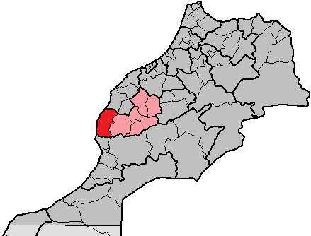 Location of the province Essaouira within the region Marrakech-Tensift-Al Haouz, Morocco. In total, Morocco has 16 regions, subdivided into 62 provinces and 13 prefectures.